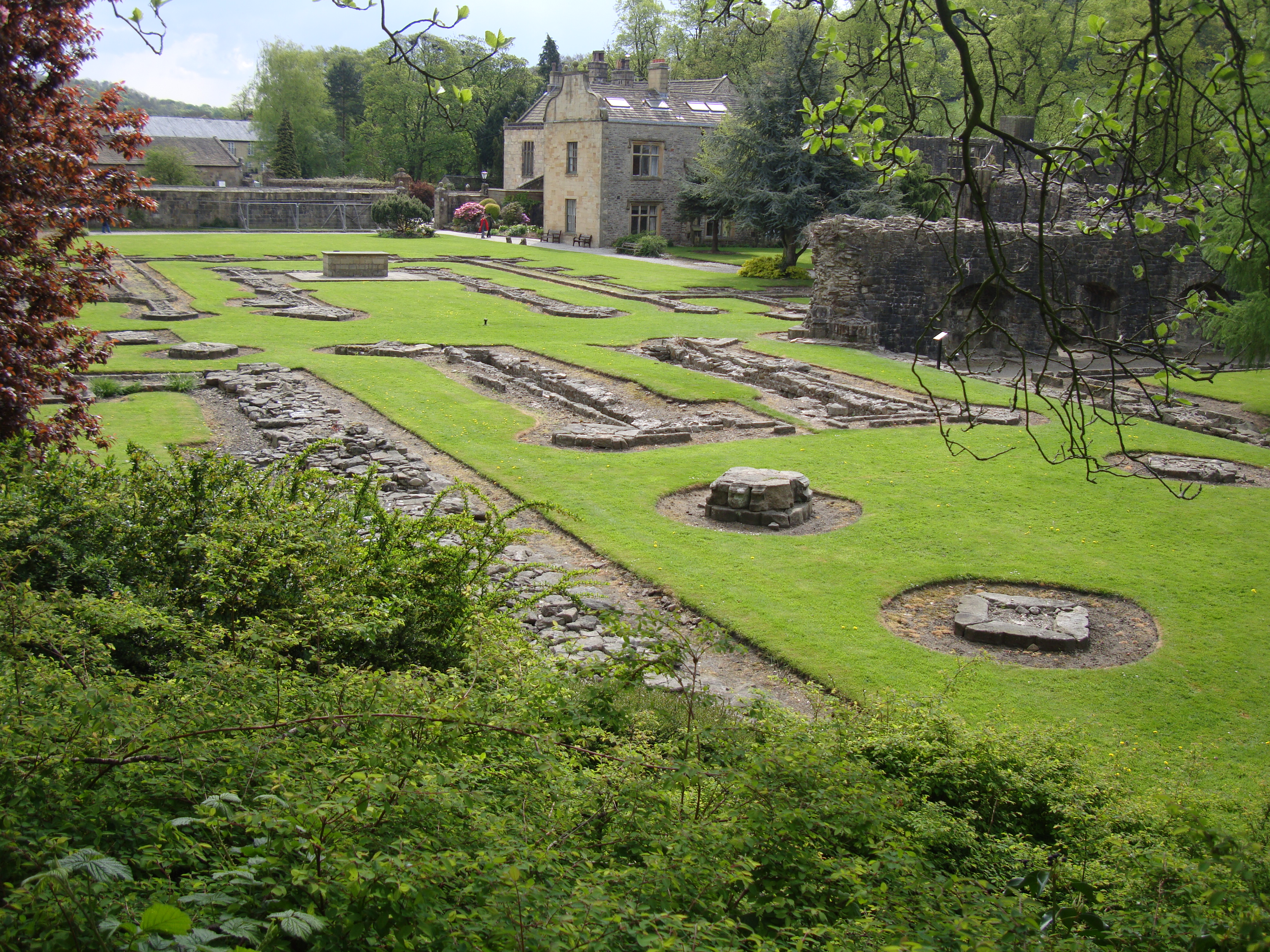 Photograph of Whalley Abbey, Lancashire, England